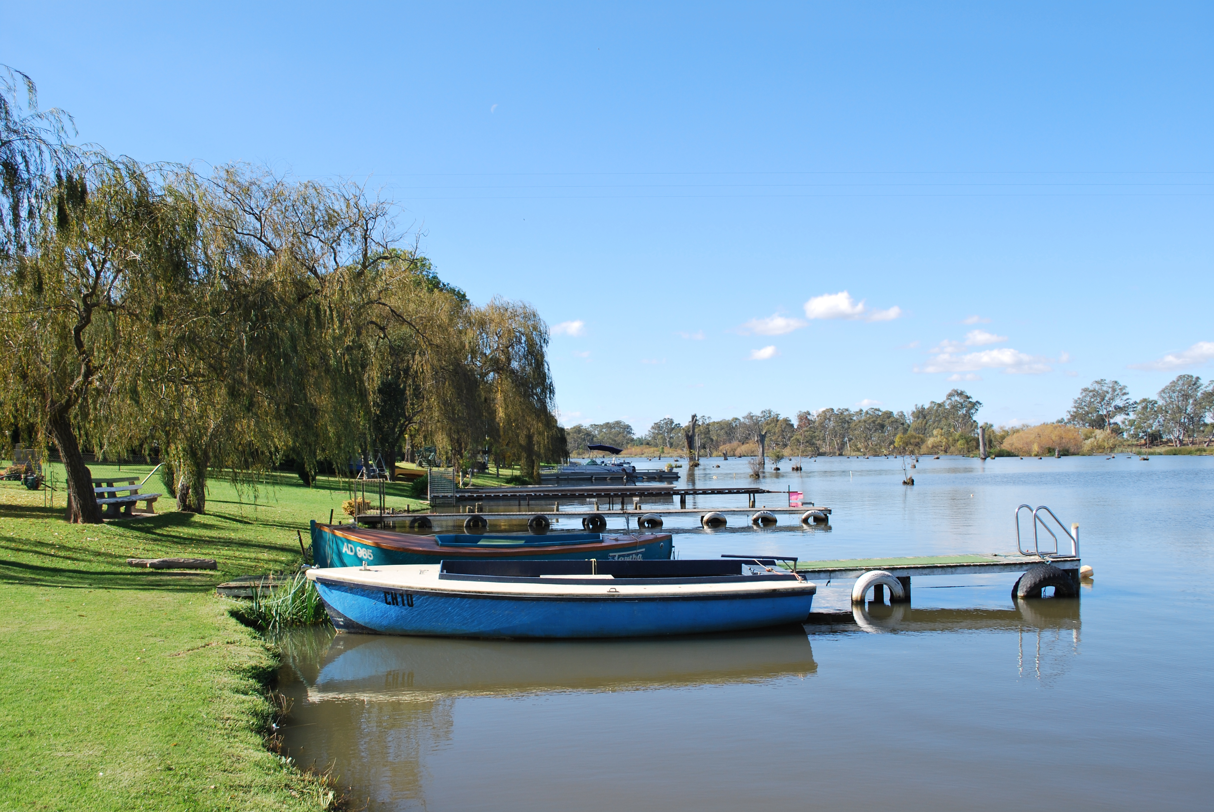 Boats on Goulburn Weir at Bailieston, Victoria